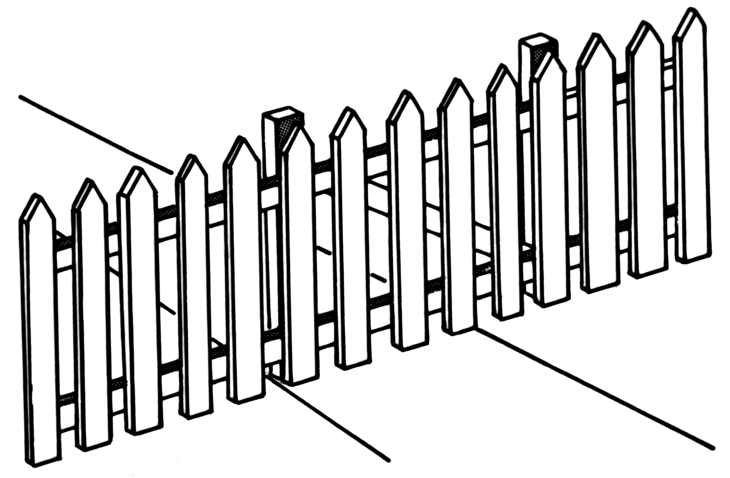 Line art drawing of picket fence.